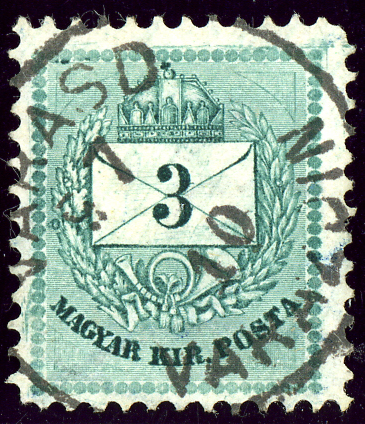 Hungarian 3 kr stamp issue 1881 cancelled bilingual Varasd - Varaždin (Croatia)